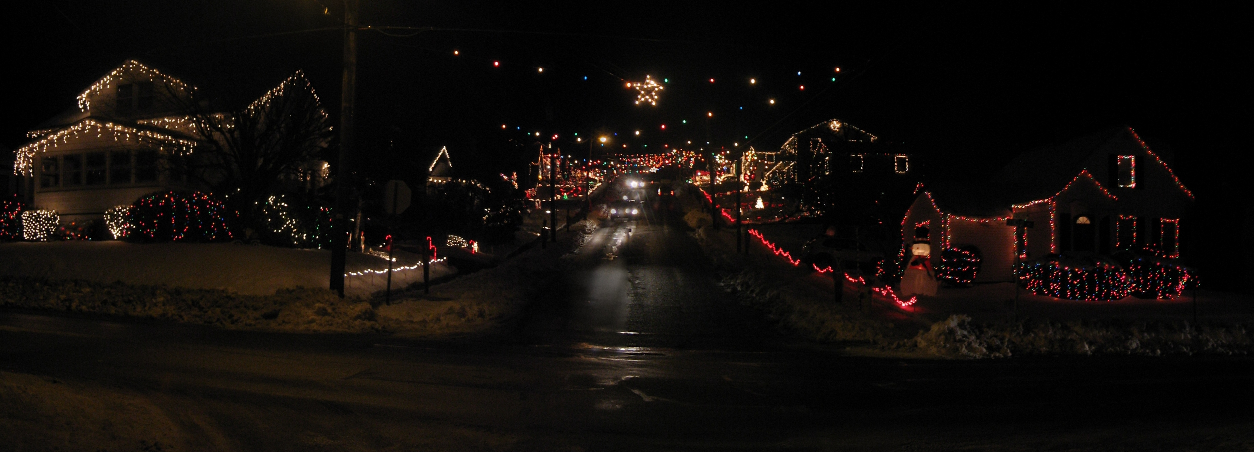 Panoramic view of Candy Cane Lane (Summer Street) in Duboistown, Lycoming County, Pennsvlvania, USA.